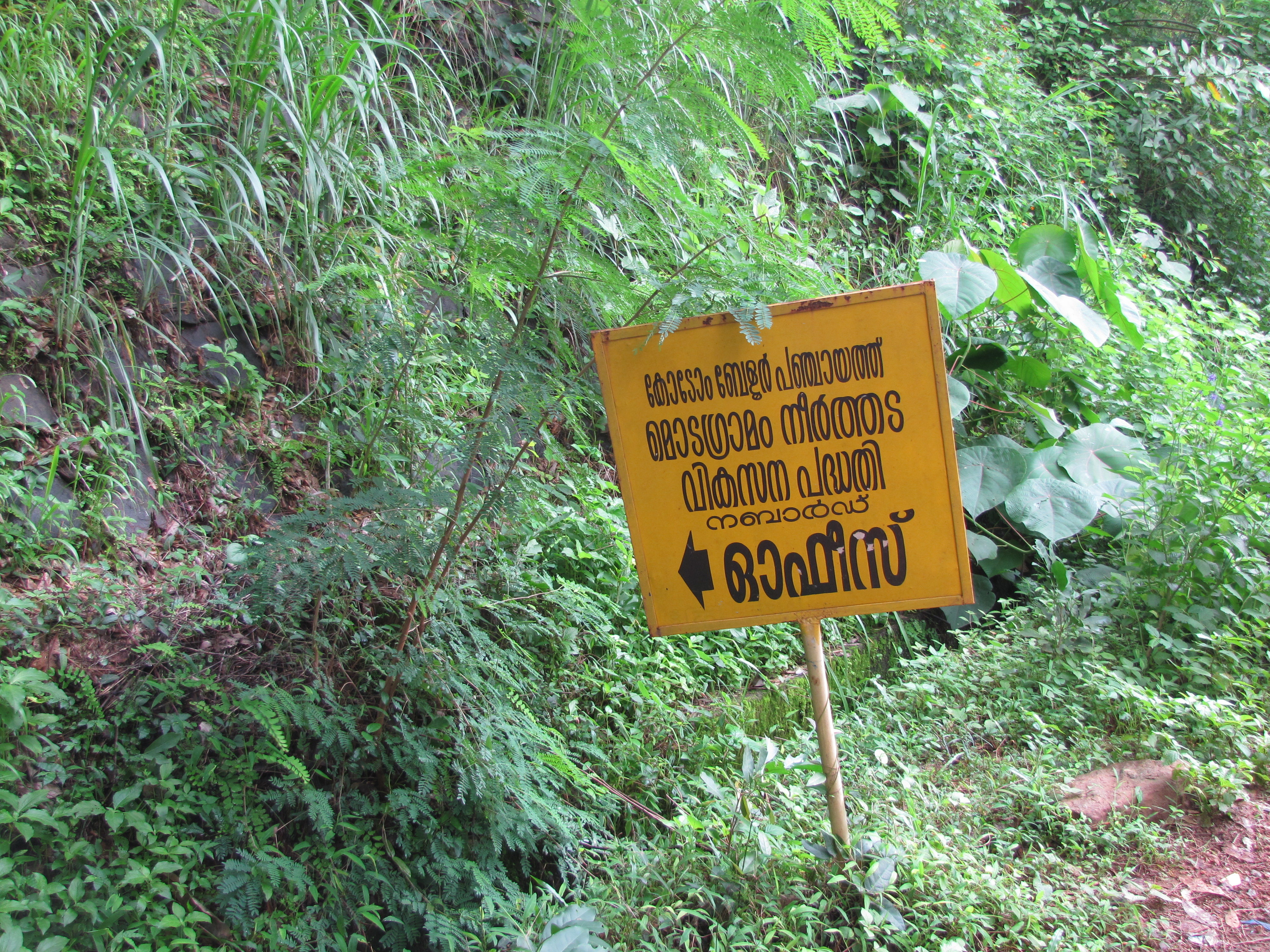 This media file is uploaded with Malayalam loves Wikimedia event - 3.